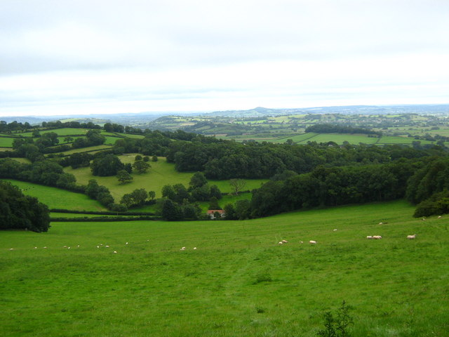 View down the valley from Stoke Woods, looking SSE with Glastonbury Tor on the horizon. Somerset, UK.